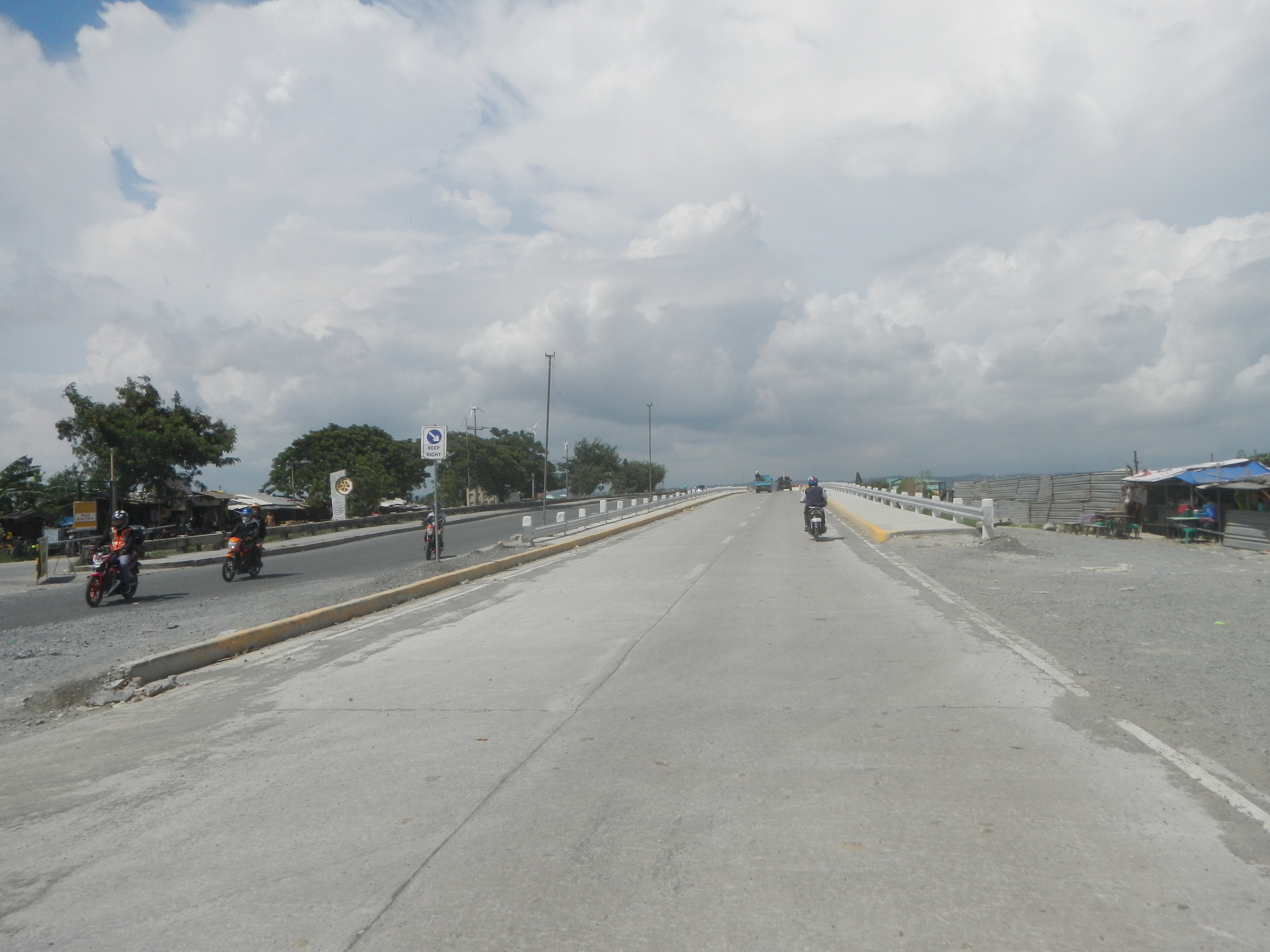 Circumferential Road 6 Napindan Bridge (C-6 Road, Taguig River, Napindan River-Channel NHCS & Pasig River), Pinagbuhatan, Pasig City-Santa Ana, Taytay, Rizal; Taguig River Napindan River (Napindan Channel) Napindan, Taguig City Barangay Napindan 14°32'4"N 121°5'53"E Taguig City Napindan Bridge (Pasig) 14°32'6"N 121°6'8"E Taguig River Napindan Hydraulic Control Structure or NHCS Pasig River (Napindan Channel) (Note: Judge Florentino Floro, the owner, to repeat, Donor Florentino Floro of all these photos hereby donate gratuitously, freely and unconditionally all these photos to and for Wikimedia Commons, exclusively, for public use of the public domain, and again without any condition whatsoever).